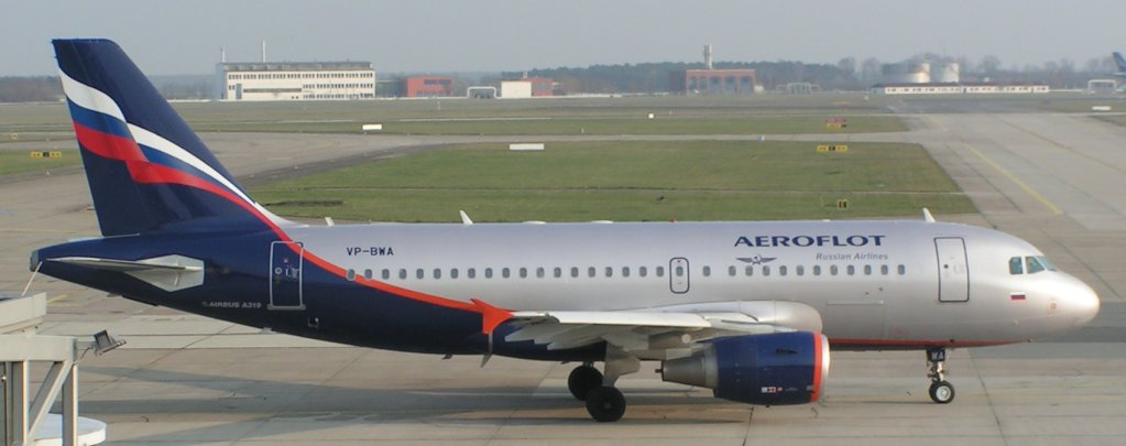 Aeroflot Airbus A319-100 (VP-BWA) at Schönefeld International Airport